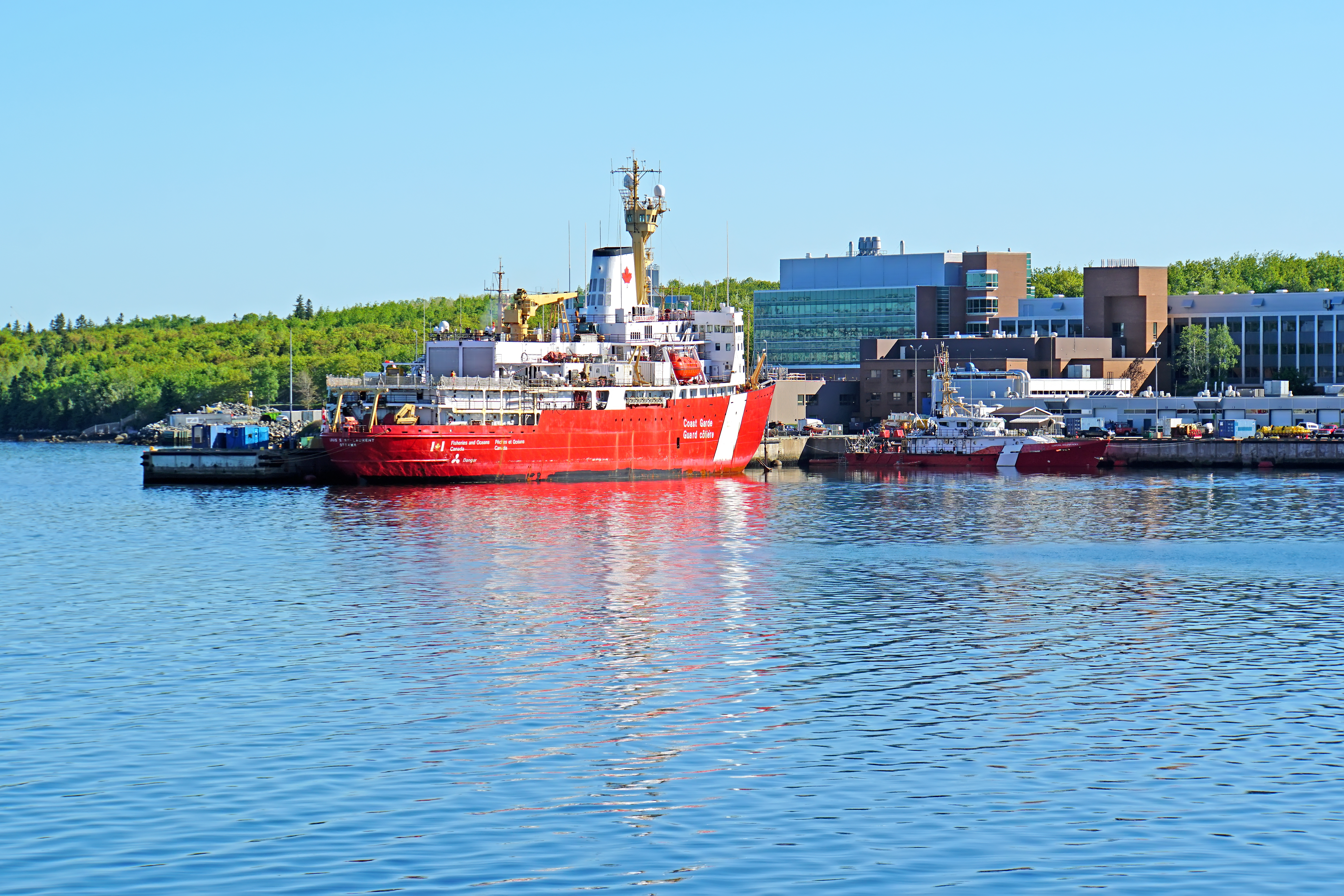 The Bedford Institute of Oceanography (BIO) is a major Government of Canada ocean research facility located in Dartmouth, Nova Scotia. BIO is the largest ocean research station in Canada. Established in 1962 as Canada's first, and currently largest, federal centre for oceanographic research. The ship on the left is CCGS LOUIS S. ST-LAURENT.